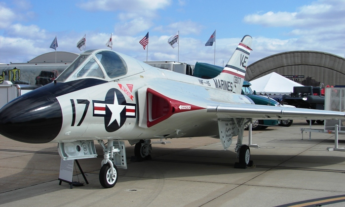 A U.S. Marine Corps Douglas F4D-1 Skyray fighter (BuNo 139177) at the Flying Leatherneck Aviation Museum, at Marine Corps Air Station Miramar, San Diego, California (USA), on 4 October 2008.